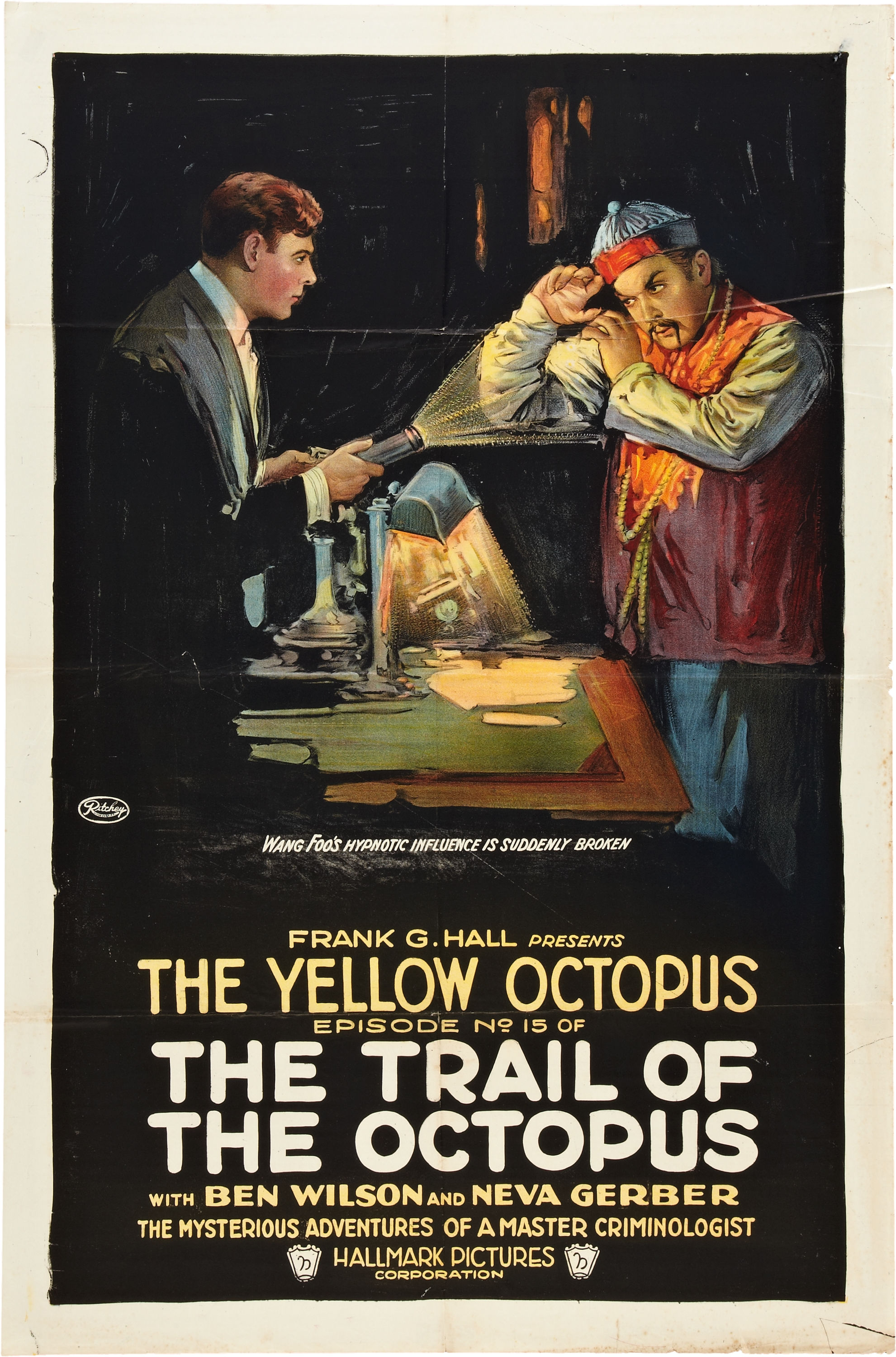 Theatrical poster for the film serial The Trail of the Octopus, Episode 15: "The Yellow Octopus."